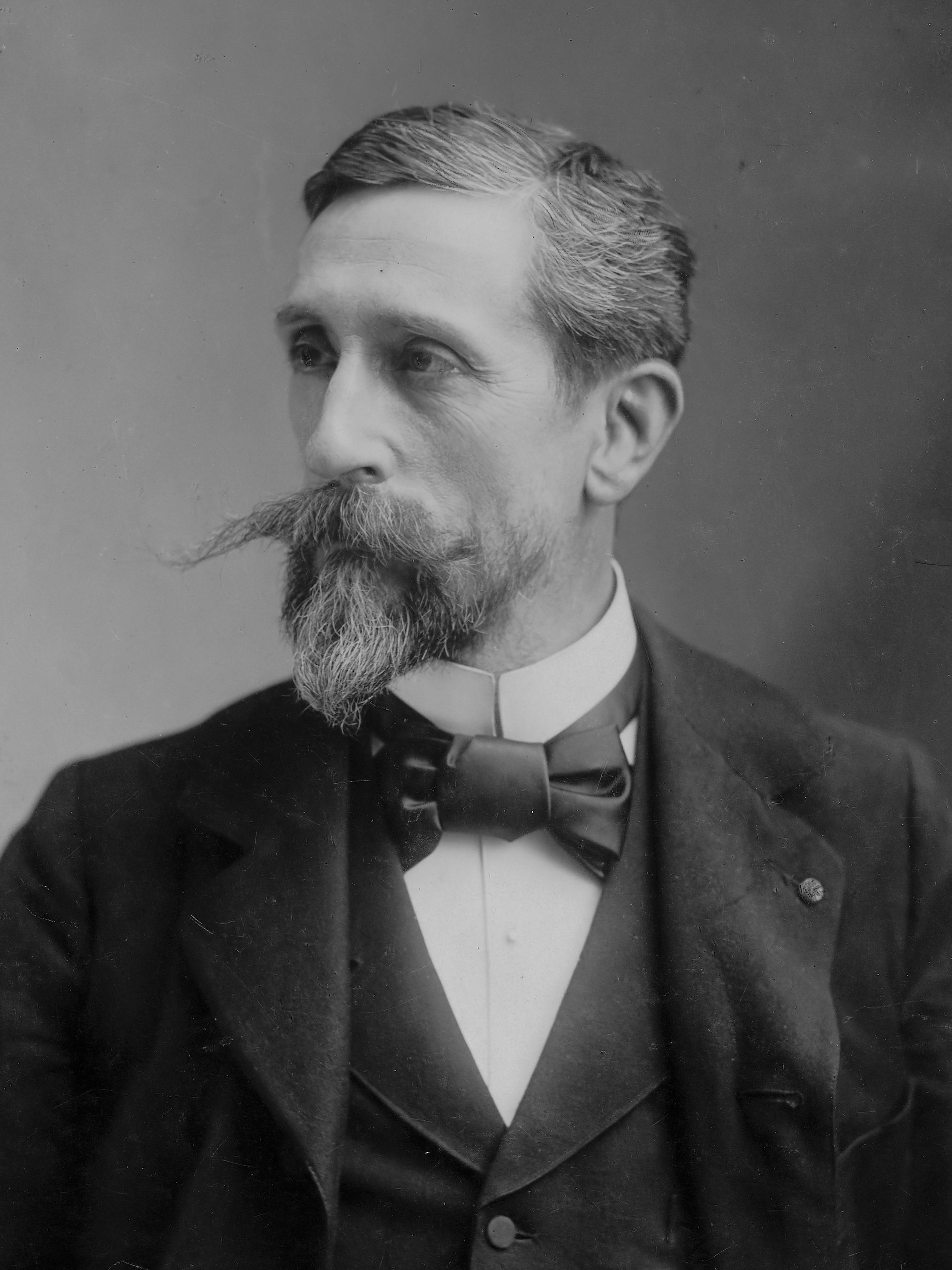 Camille Bellanger 1876-1889